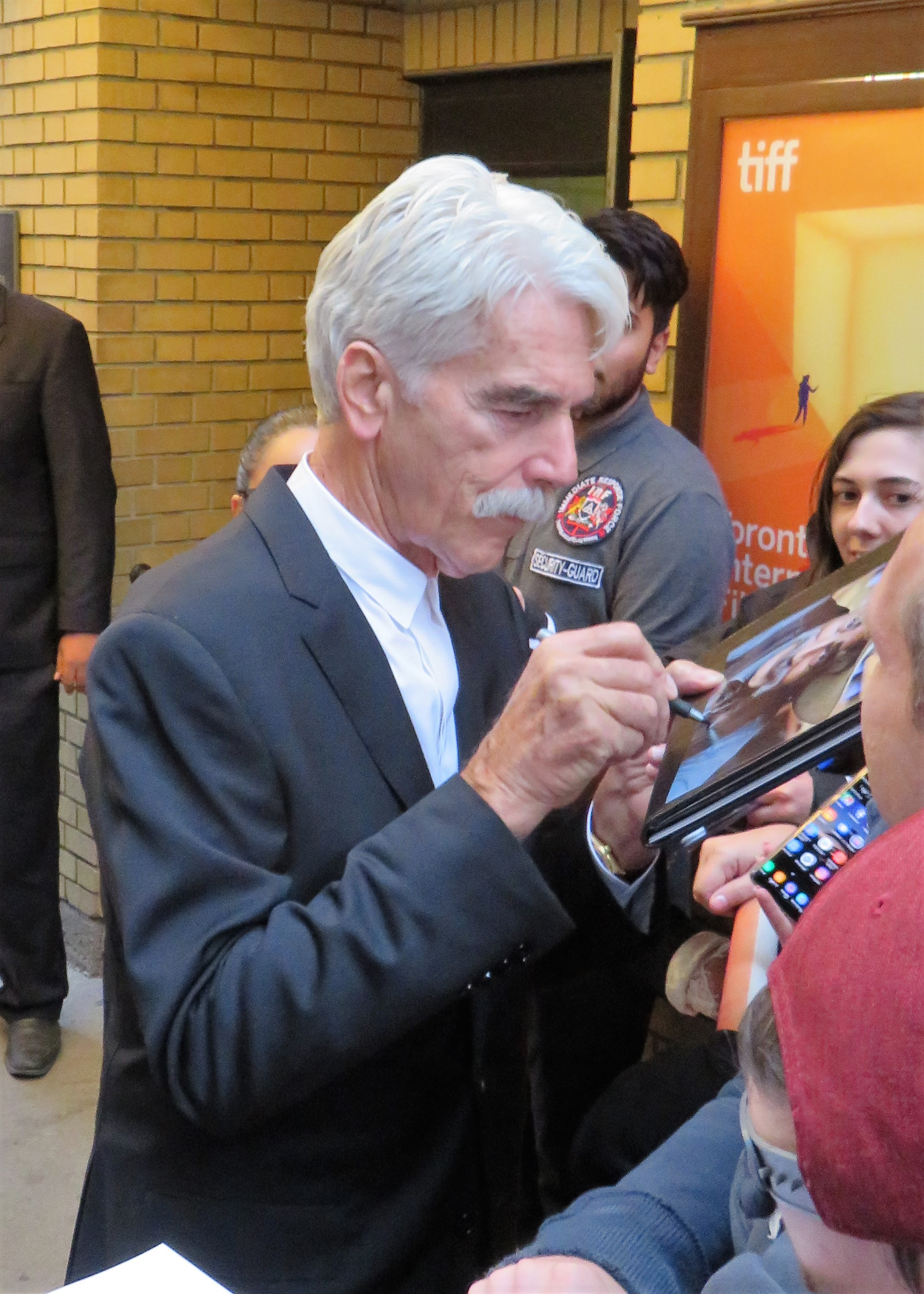 Sam Elliott at the premiere of A Star Is Born, 2018 Toronto Film Festival